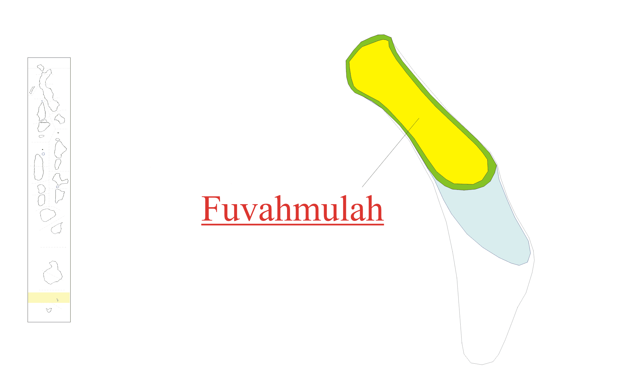 Map of Nyaviyani_Atoll Map originally vector'ed by Hassan Waheed, Aabaadhuge of Thinadhoo island. Note: This section of map was extracted and its text was romanized by Oblivious. Special assitance by Waddey and Zuru Converted to PNG by helix84 * source: Image:Nyaviyani_Atoll.jpg